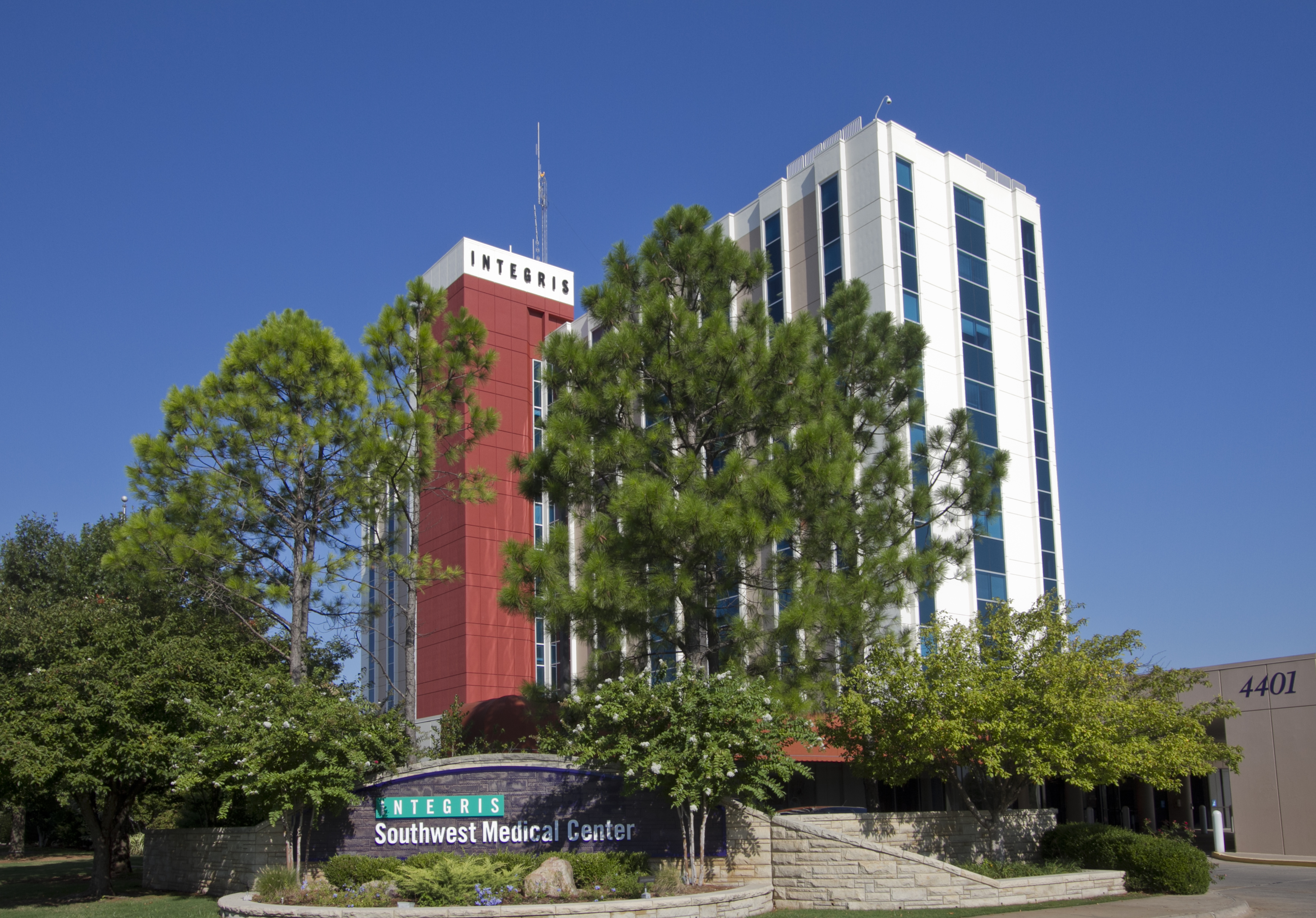 Photo of INTEGRIS Southwest Medical Center, a hospital located in Oklahoma City OK